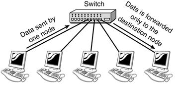 Taken from the internet, public teaching of networks information websites